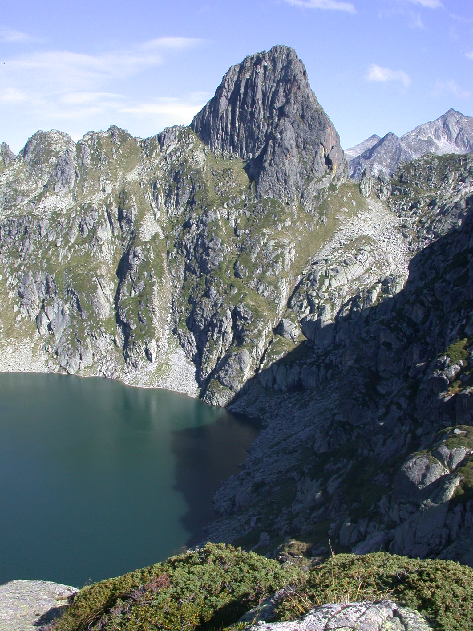 The Tooth of Mède (2352 m) and the lake of Aubé (2094 m). France, Pyrenees, Ariège. September 2008.